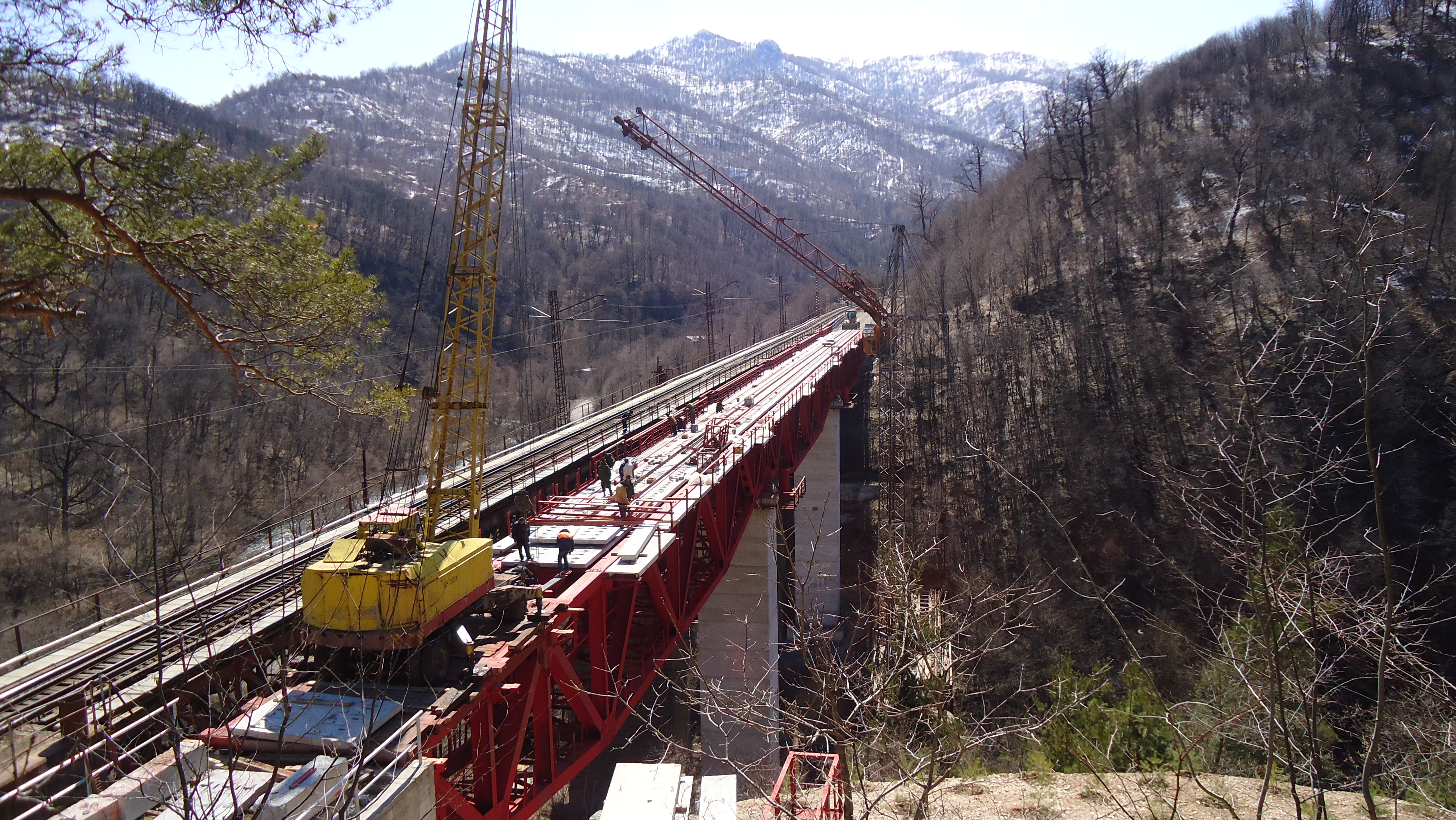 Zamanlu bridge construction